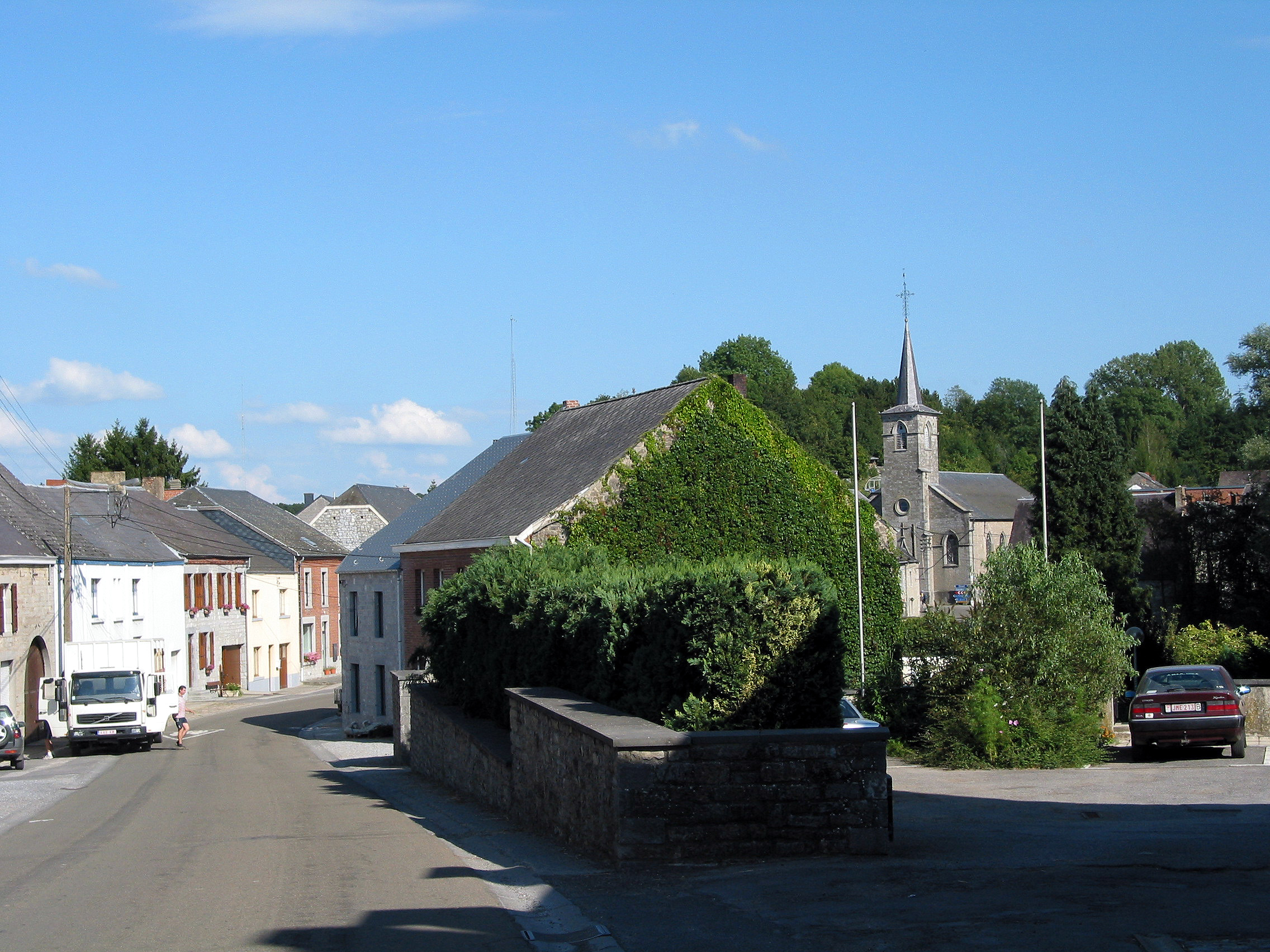 Doische (Belgium), rue du Viroin.